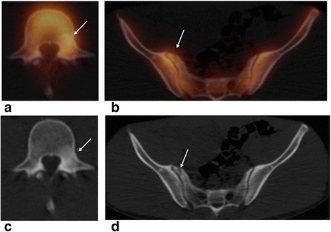 Pedicle stress reaction in an 18-year-old male wrestler complaining of left-sided back pain. Incidental finding of a small old avulsion fracture of the right sacral ala at the joint capsule insertion a Axial fused SPECT/CT image shows mildly increased uptake at the left L4 pedicle, which on axial CT image (c) is associated with sclerosis in the left pedicle region. b Fused SPECT/CT axial image of the sacrum shows minimal uptake associated with a small avulsion fracture at the right sacral ala on axial CT image (d).